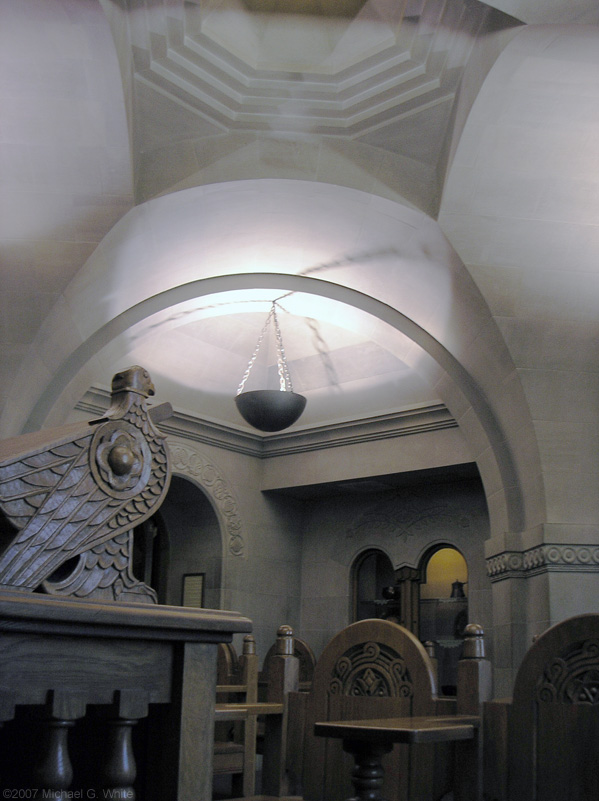 The Armenian Classroom, one of the Nationality Rooms in the Cathedral of Learning at the University of Pittsburgh. photo by Michael G White